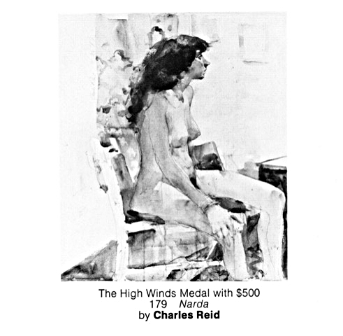 Watercolor titled "Narda" by Charles Reid American Painter